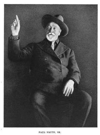 Image from Alfred Lee Donaldson's 1921 A history of the Adirondacks, Volumes 1 and 2 scanned and archived at where it was marked as Public Domain.